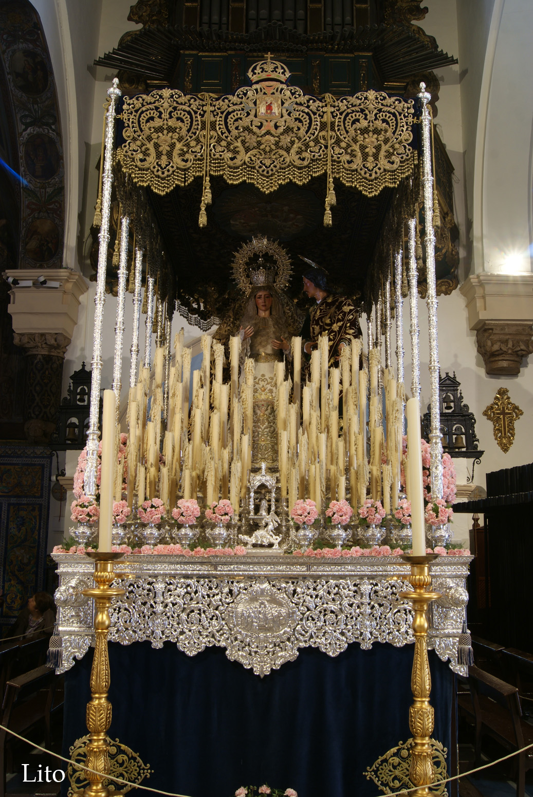 Palio de la Virgen del Dulce Nombre